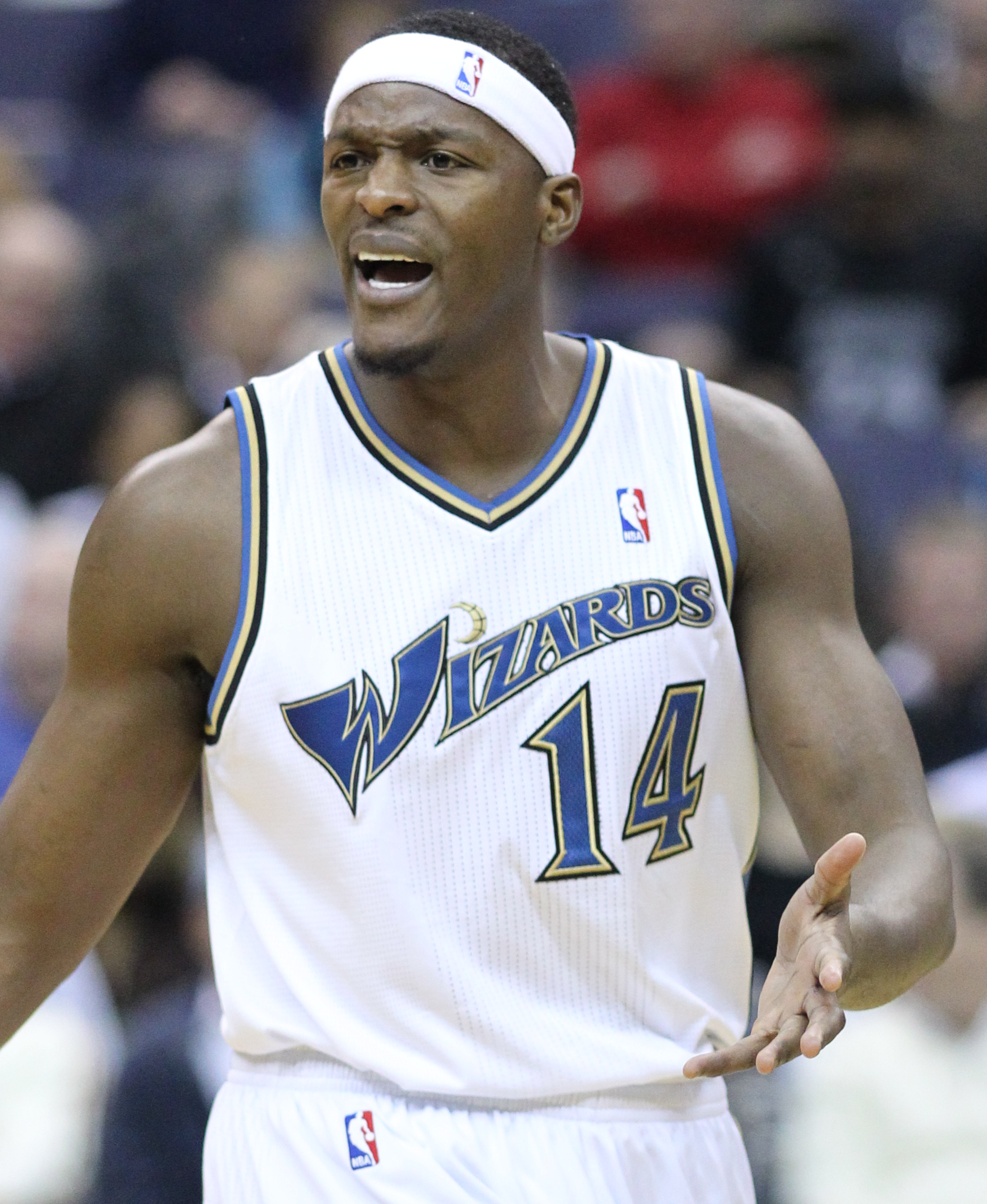 Washington Wizards v/s Denver Nuggets January 25, 2011